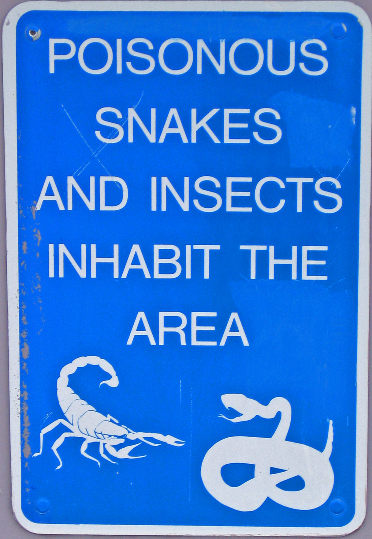 Arizona, poisonous snake warning sign.IMG_9619.JPG